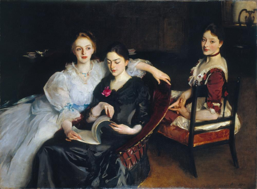 "The Misses Vickers," oil on canvas, by the American artist John Singer Sargent. 54.25 in. x 72.01 in. Courtesy of the Sheffield City Art Galleries, Sheffield, South Yorkshire, England. Photograph courtesy of The Atheneum.